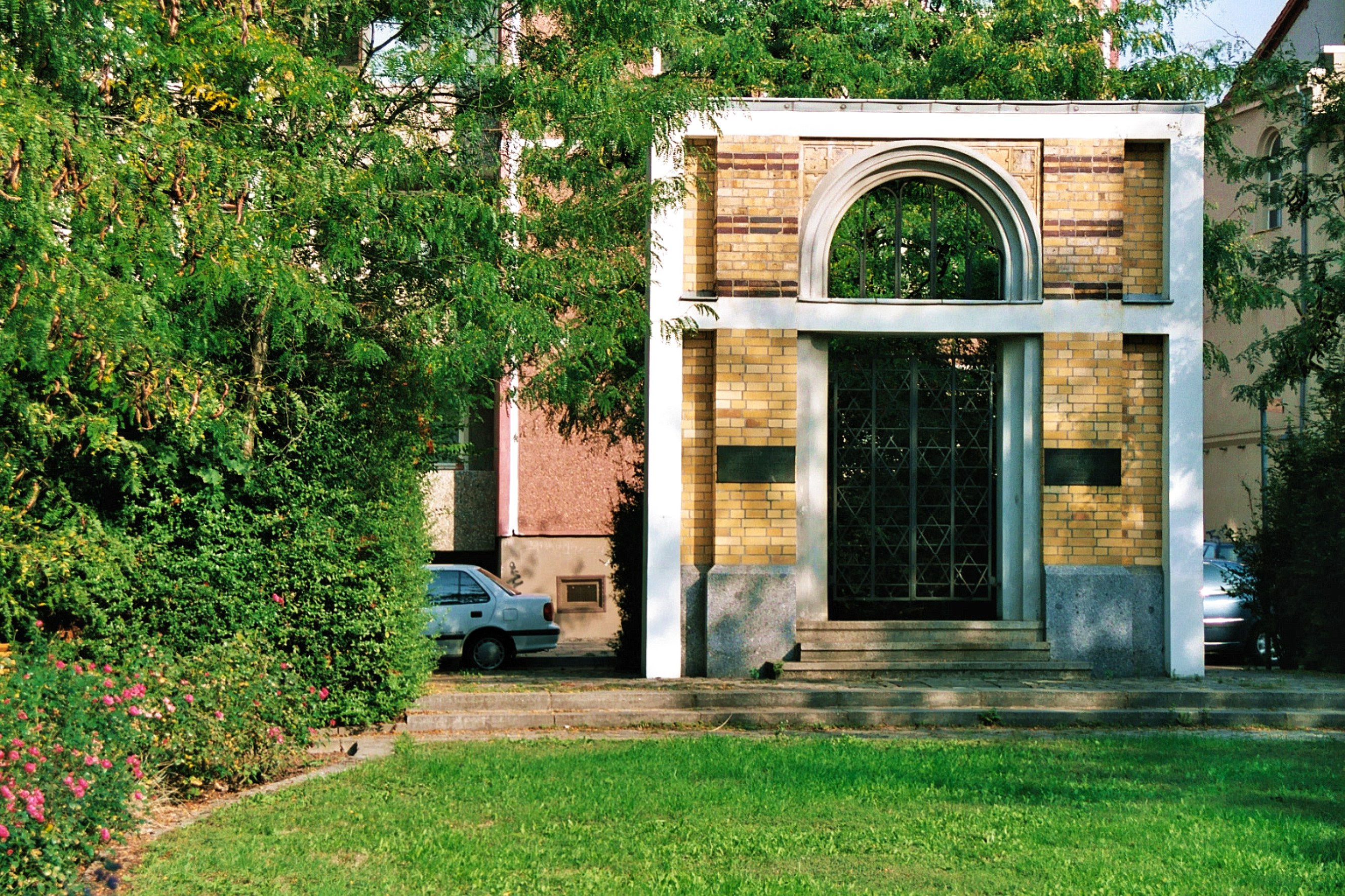 Halle (Saale), memorial of the destroyed synagogue